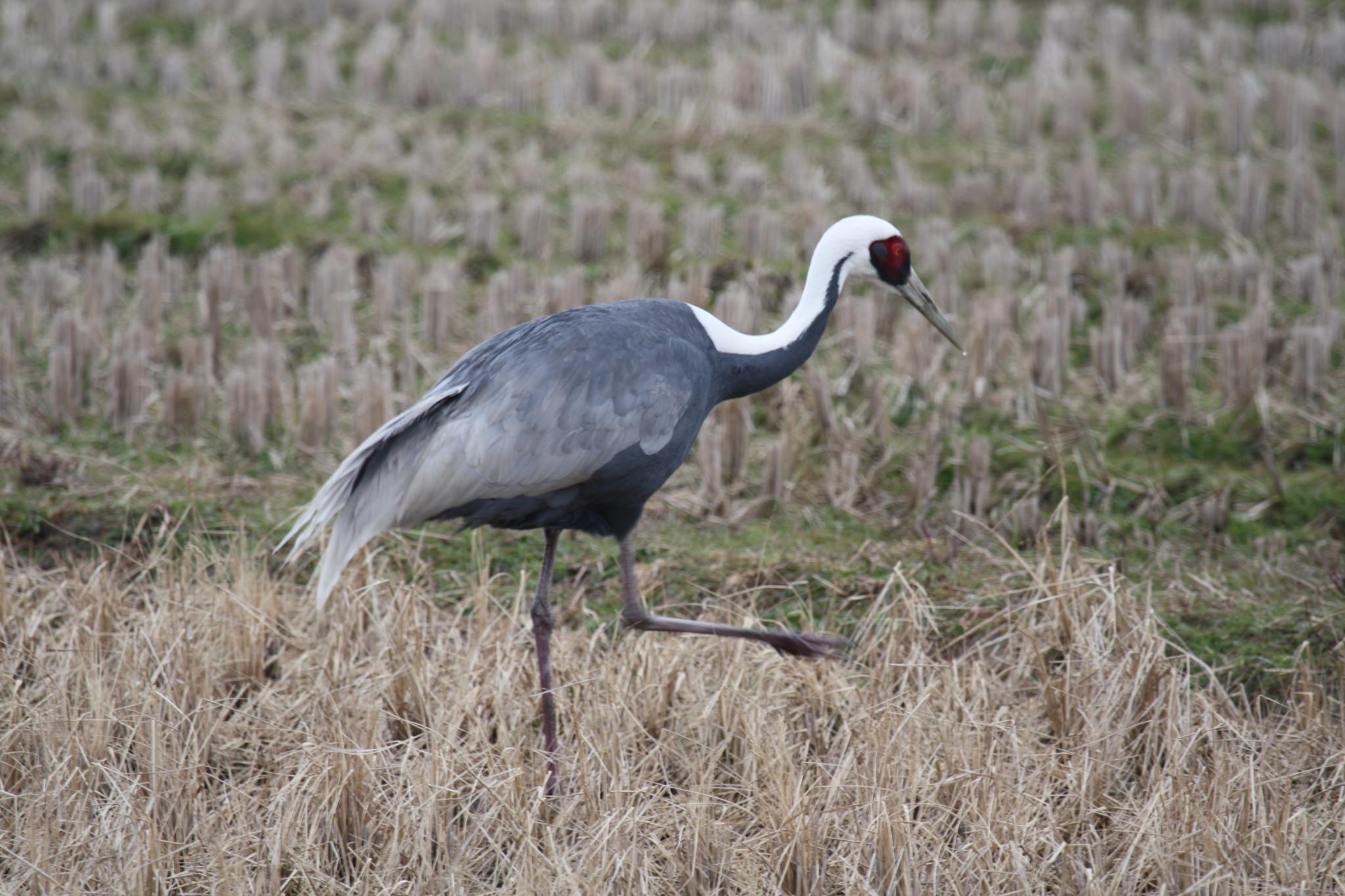 A White-naped Crane wintering in rice paddies in Kyushu, Japan.